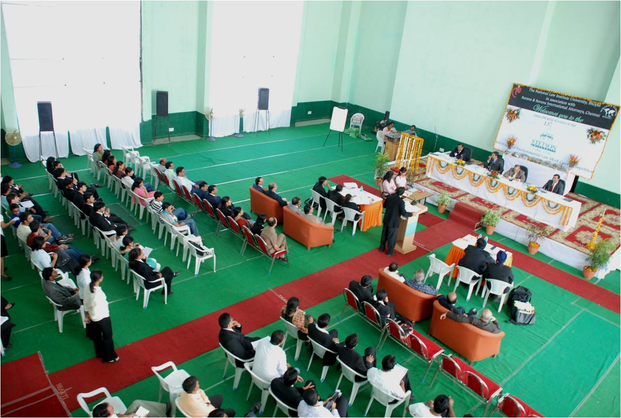 Stetson 2008 NLIU Finals 1. Hon'ble Mr. Justice A K Patnaik, Chief Justice, High Court of Madhya Pradesh 2. Hon'ble Mr. Justice Ajit Singh, Judge, High Court of Madhya Pradesh 3. Prof. Dr. A David Ambrose, University of Madras, Chennai 3. Dr. Luther Rangreji, Senior Legal Officer, Ministry of External Affairs, New Delhi